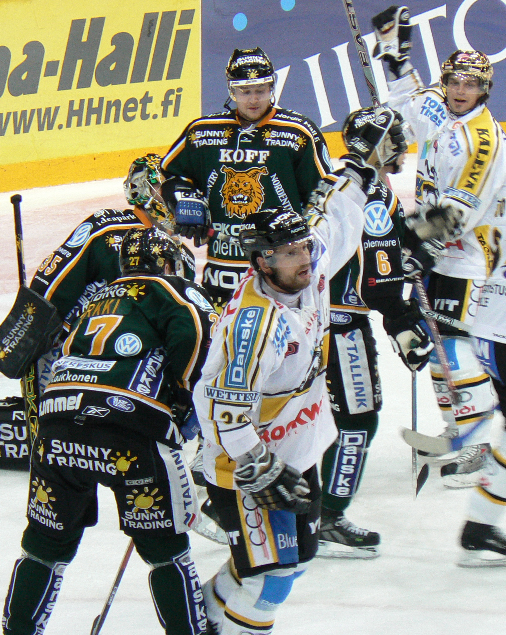 In a Finnish SM-liiga game, Michal Broš of Kärpät Oulu celebrates his game-winning goal against Ilves Tampere together with Janne Pesonen while goaltender Tero Leinonen, defencemen Joonas Lehtivuori (#6) and Teemu Jääskeläinen, and winger Sami Torkki look down in disappointment.